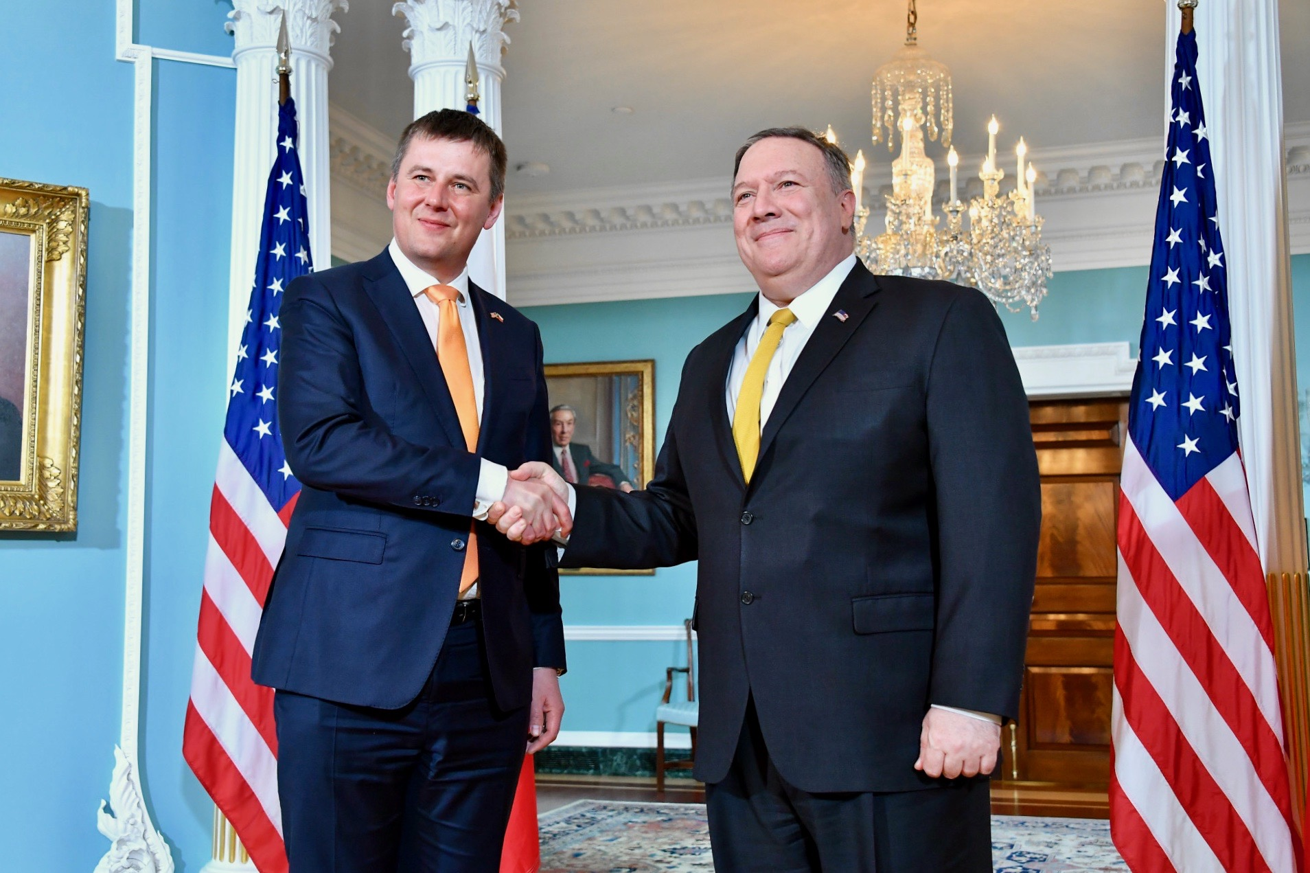 U.S. Secretary of State Michael R. Pompeo meets with Czech Foreign Minister Tomas Petricek at the U.S. Department of State in Washington, D.C., on February 22, 2019. [State Department photo by Michael Gross/ Public Domain]